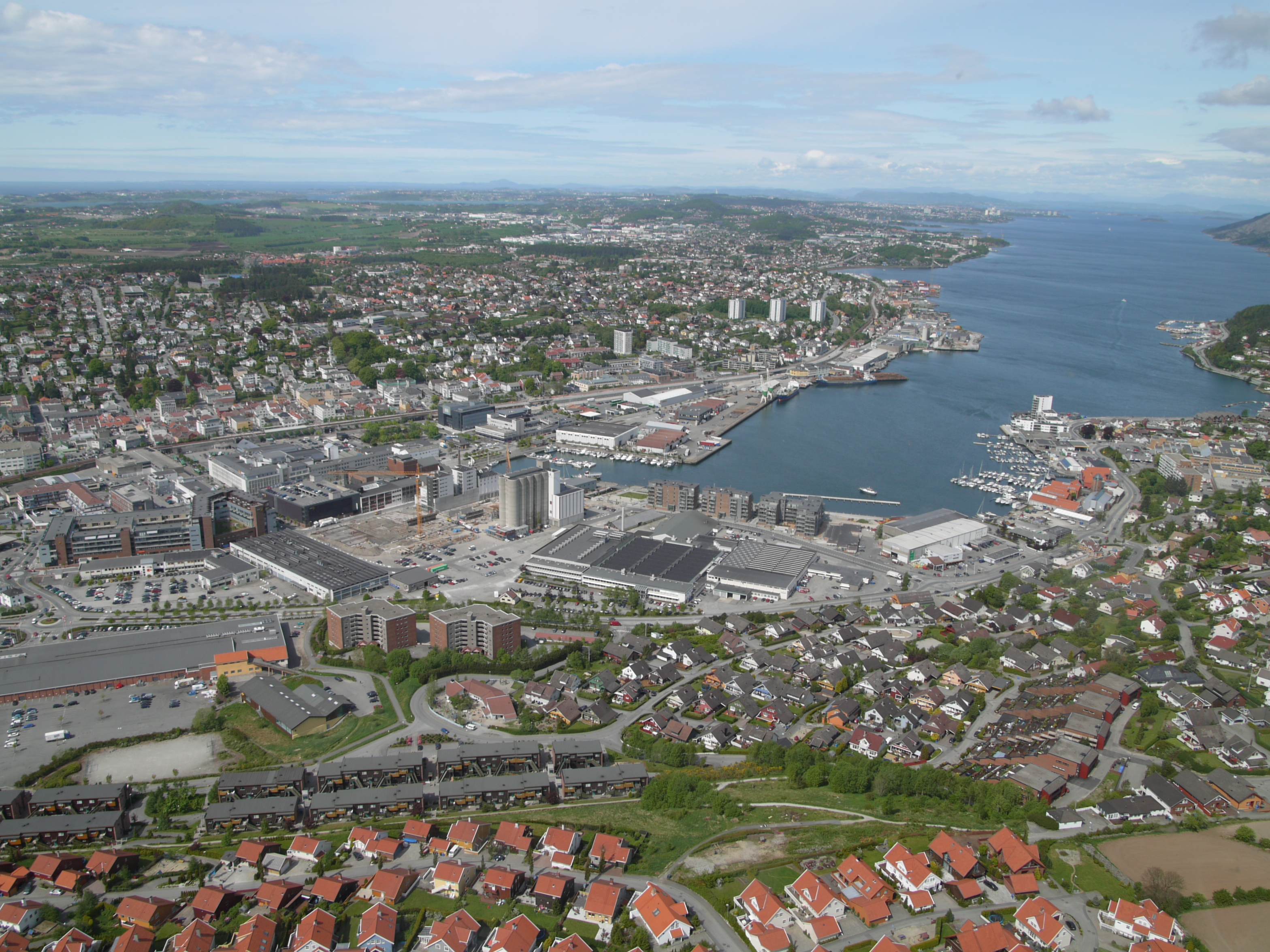 Sandnes, Norway. Looking North, with Stavanger in the far background.